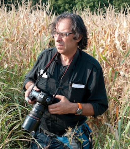 Nea Vyssa, Greece